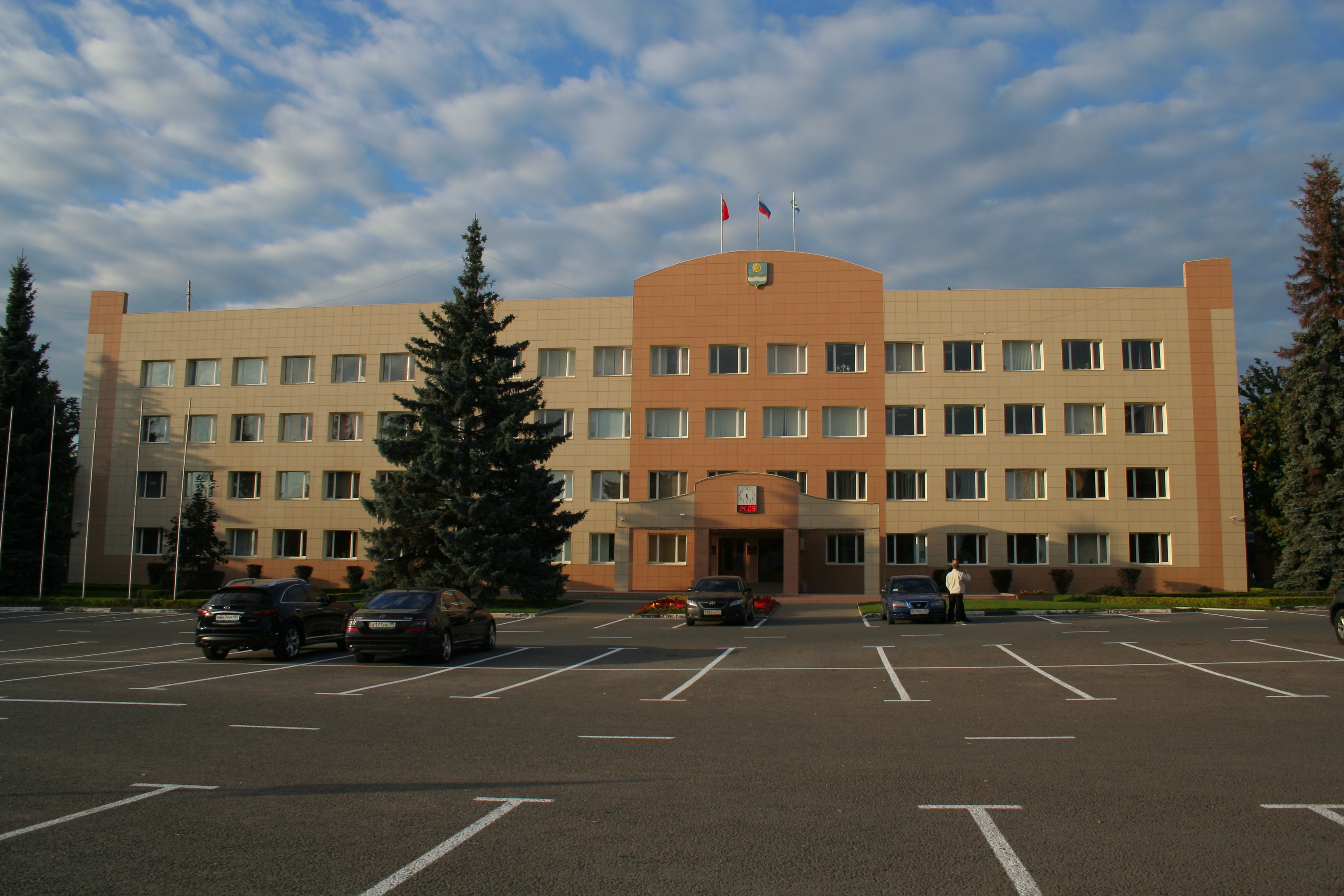 Istra town, Russia. The building of Istra Rayon administration.